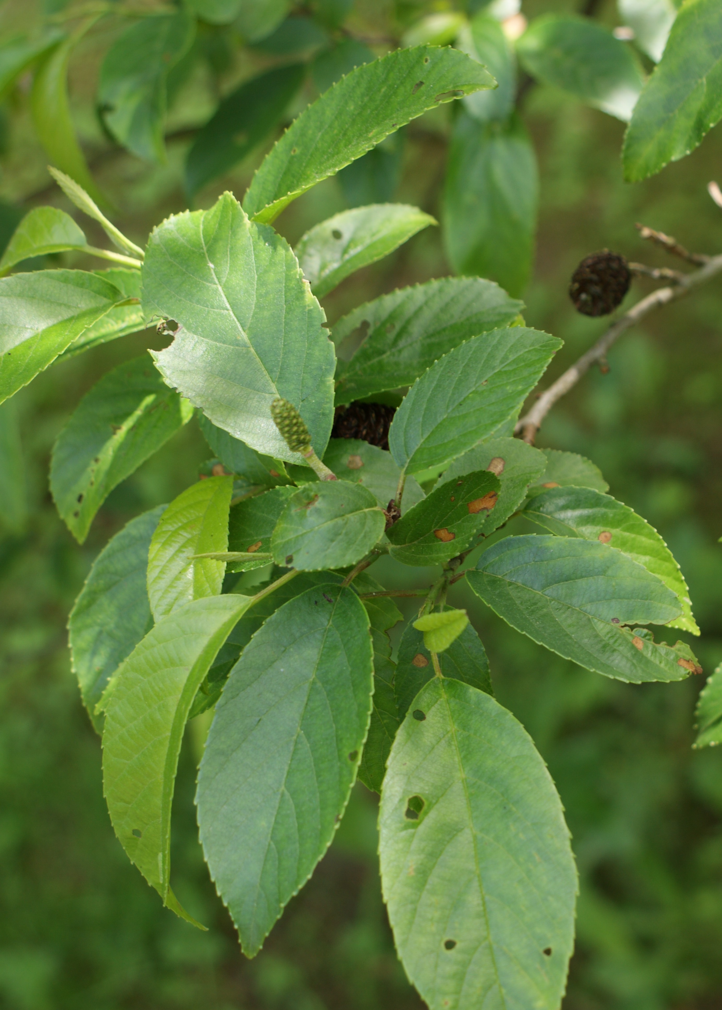 Alnus cremastogyne, Glinna Arboretum near Szczecin (NW Poland)